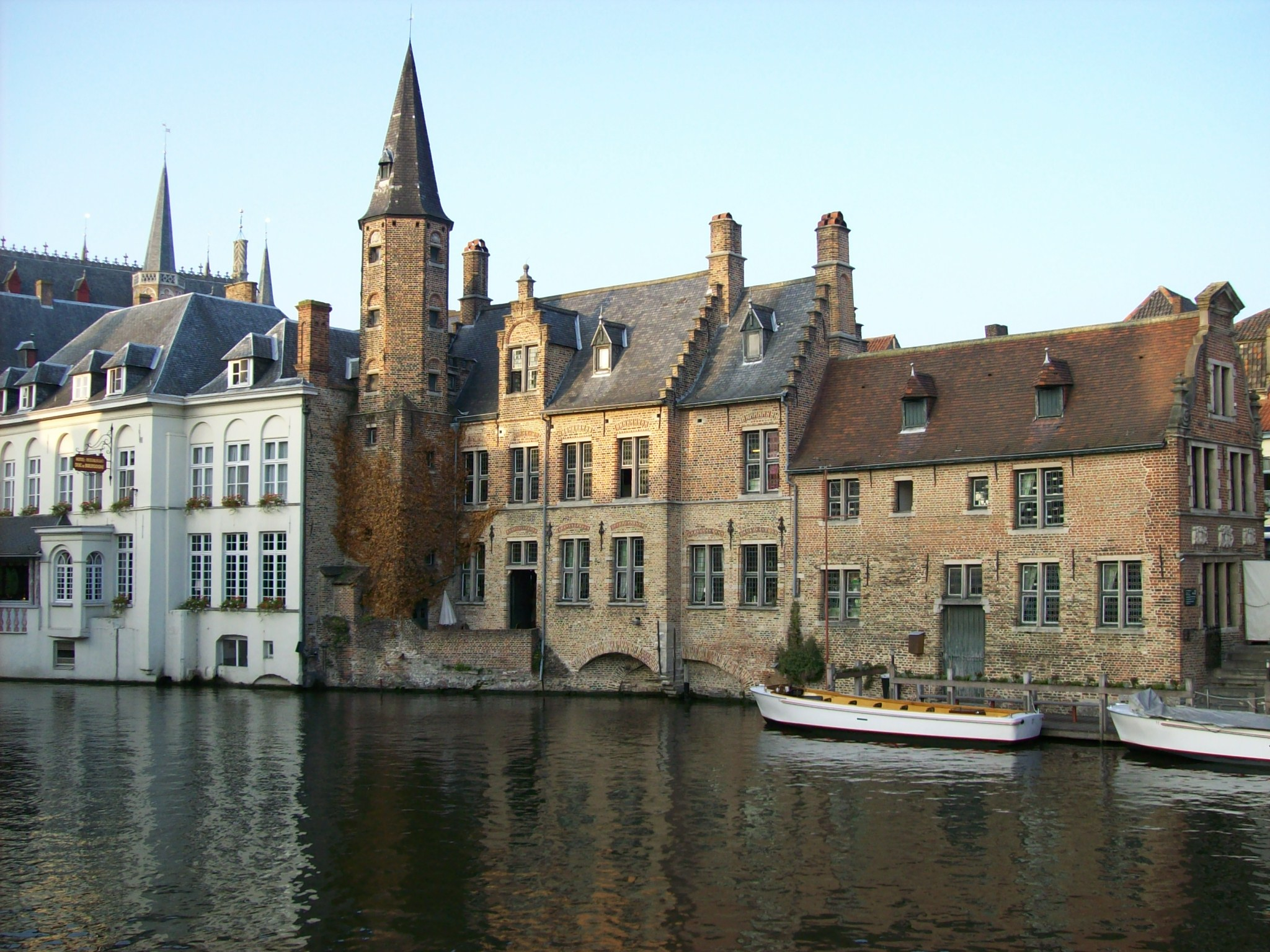 The Rozenhoedkaai, late afternoon